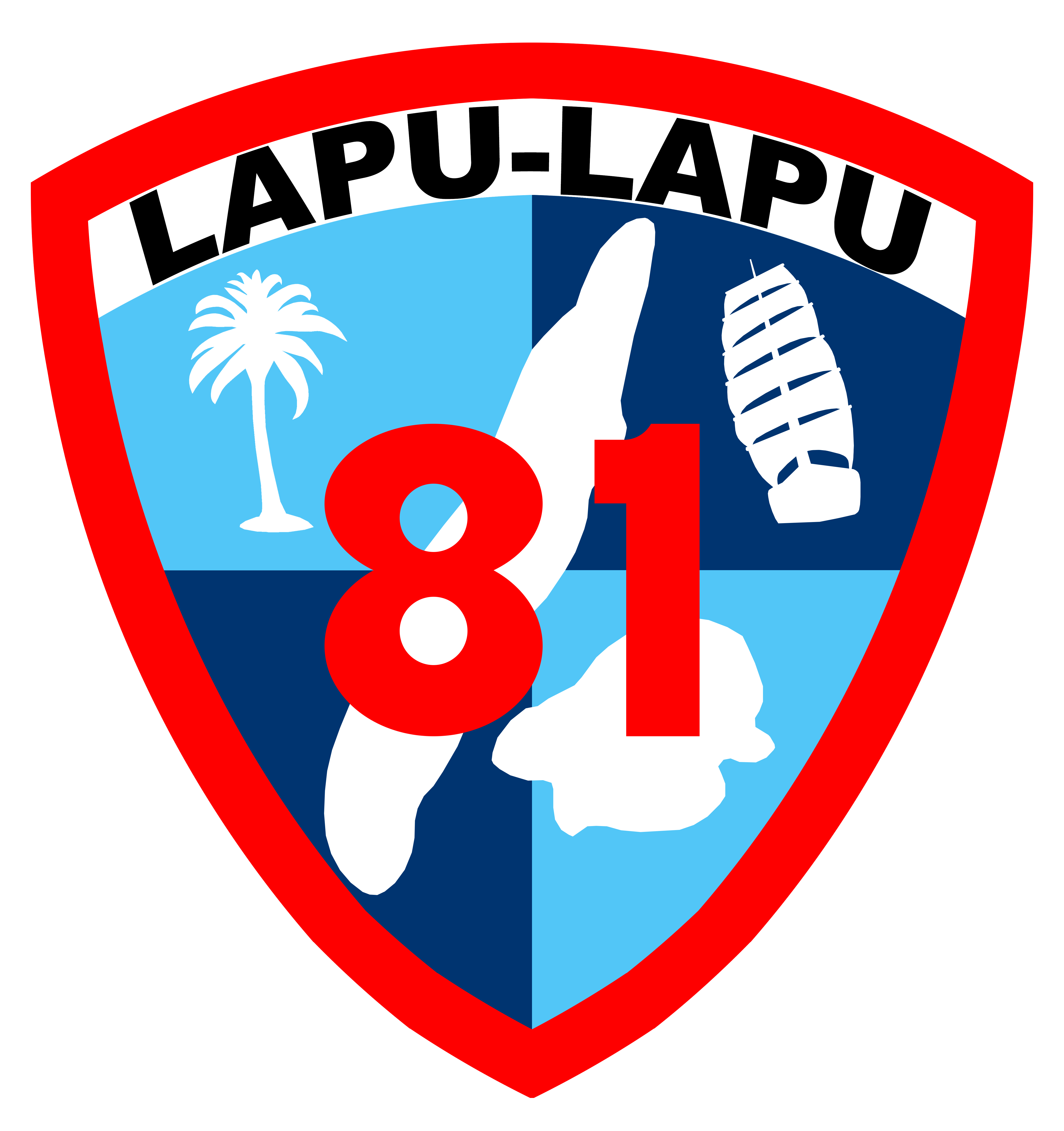 81st Philippine Division emblem from 1941-42, possibly not developed until late in that period or just after; color versions of this are a matter of record, and bronze version(s) of these emblems are seen on monuments around the Philippines.